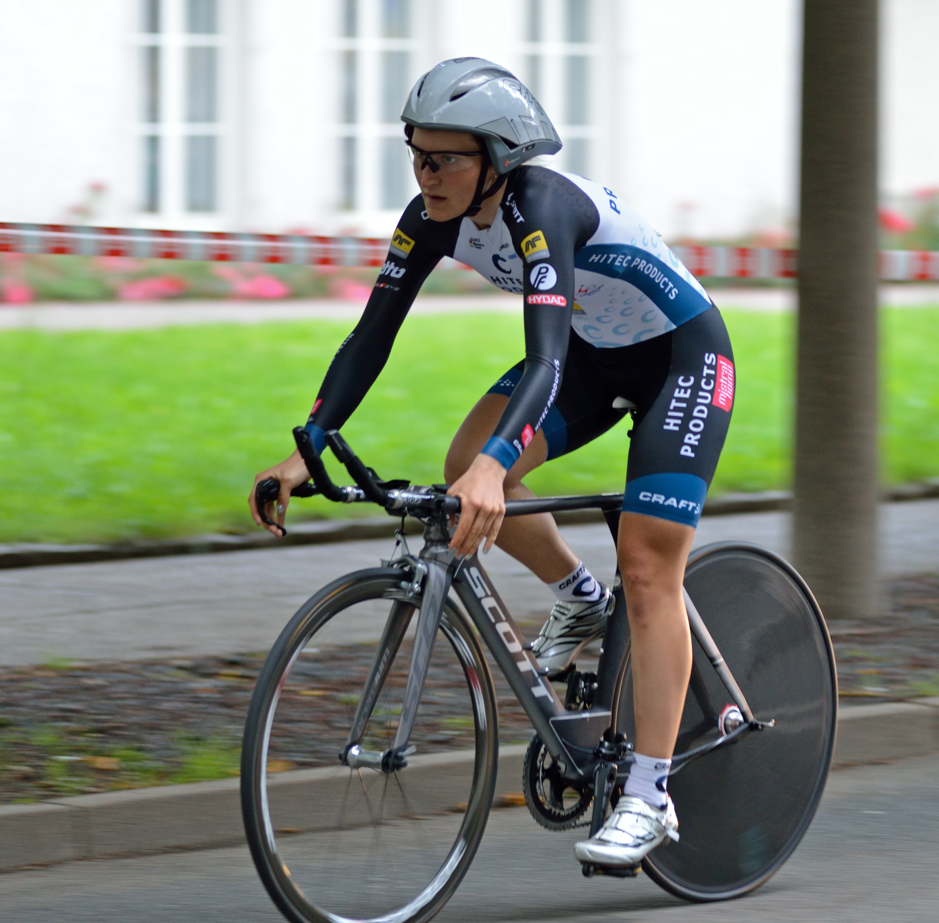 Elisa Longo Borgini from the Hitec Products-Mistral Home Cycling Team during the Women's Tour of Thuringia 2012 in Zwickau, Germany.